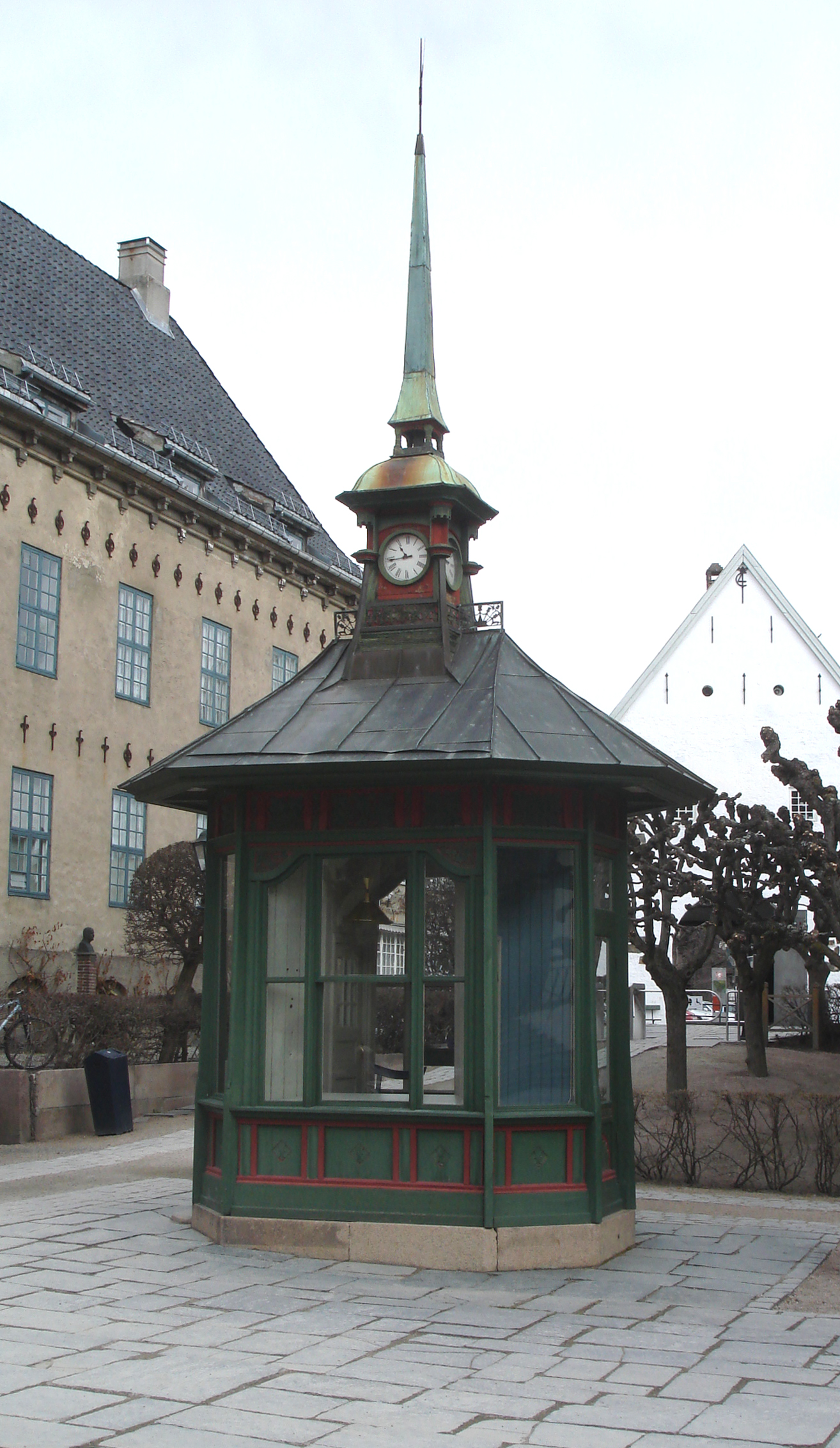 Newspaper kiosk, Christiania 1897, designed by architect Jørgen Haslef Berner. Now at the Norsk Folkemuseum, Oslo.